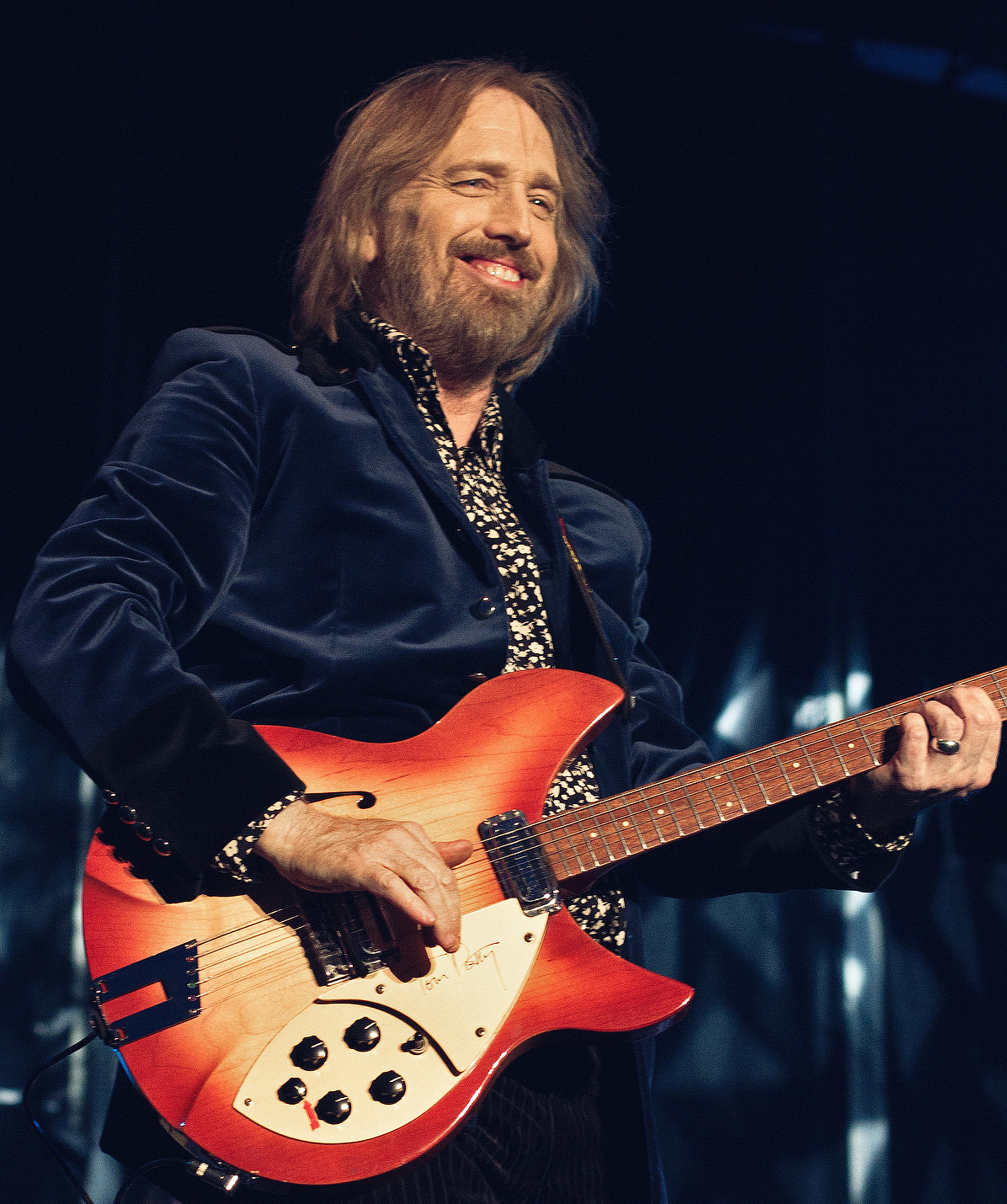 Tom Petty. Faengslet, Horsens, Denmark